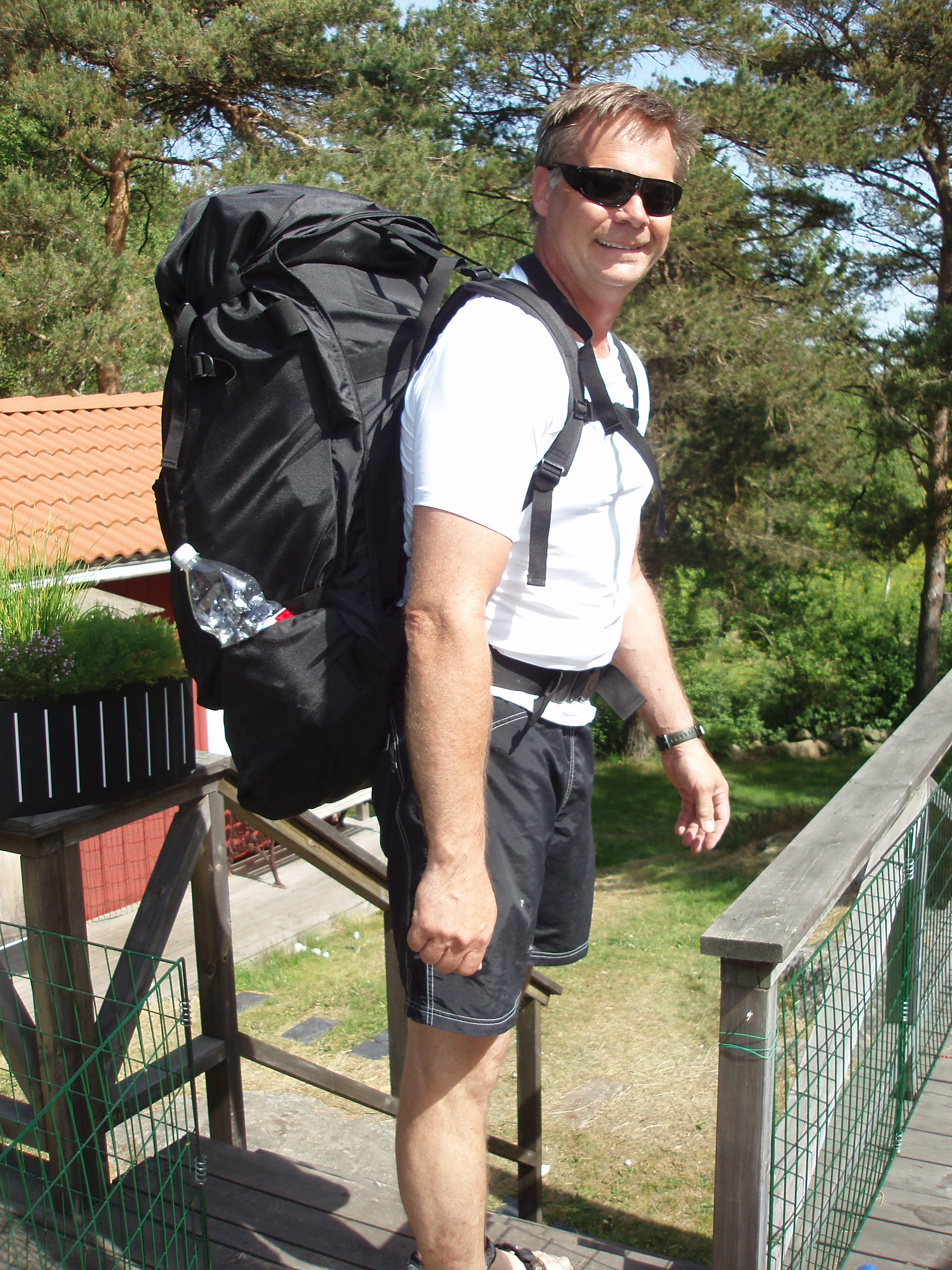 Folding kayak packed in rucksack